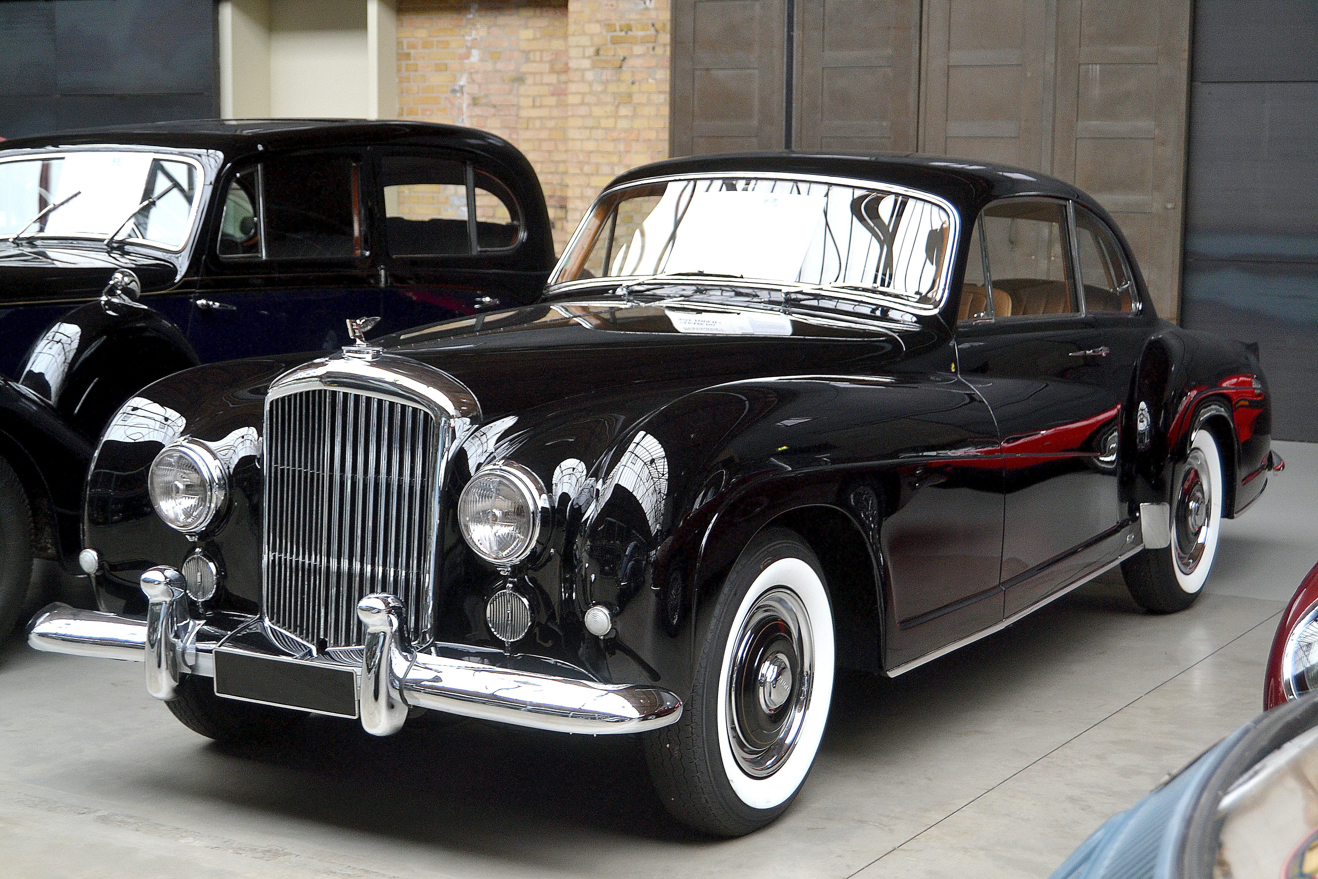 Bentley R-Type Continental, Body by Franay, Chassis No. BC 9 LE